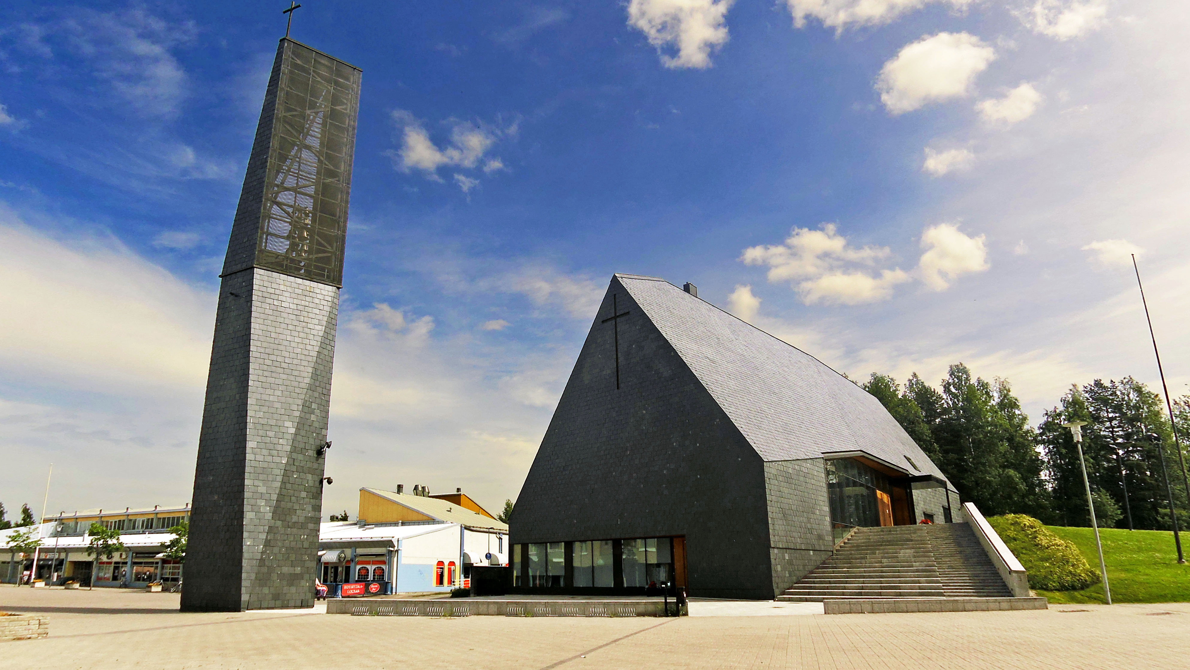 Kuokkala Church in Jyväskylä, Finland.